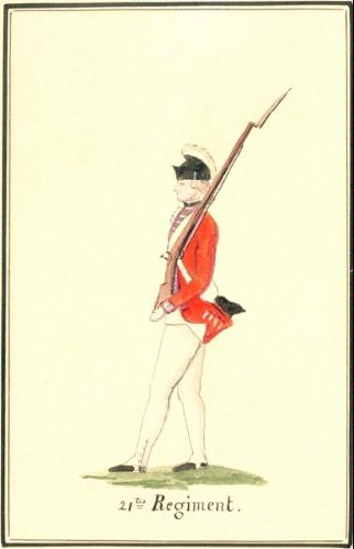 Soldier of the 21st Regiment of Foot